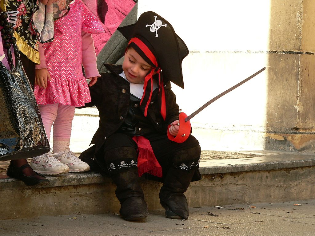 Valletta is the capital of Malta. Valletta is a traditional center of the Carnival You can use this images for free. But a link to the - I would be happy :)